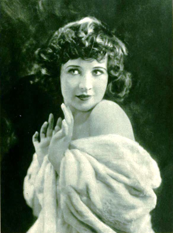 Actress Betty Compson on page 15 of the June 1921 Photoplay magazine.